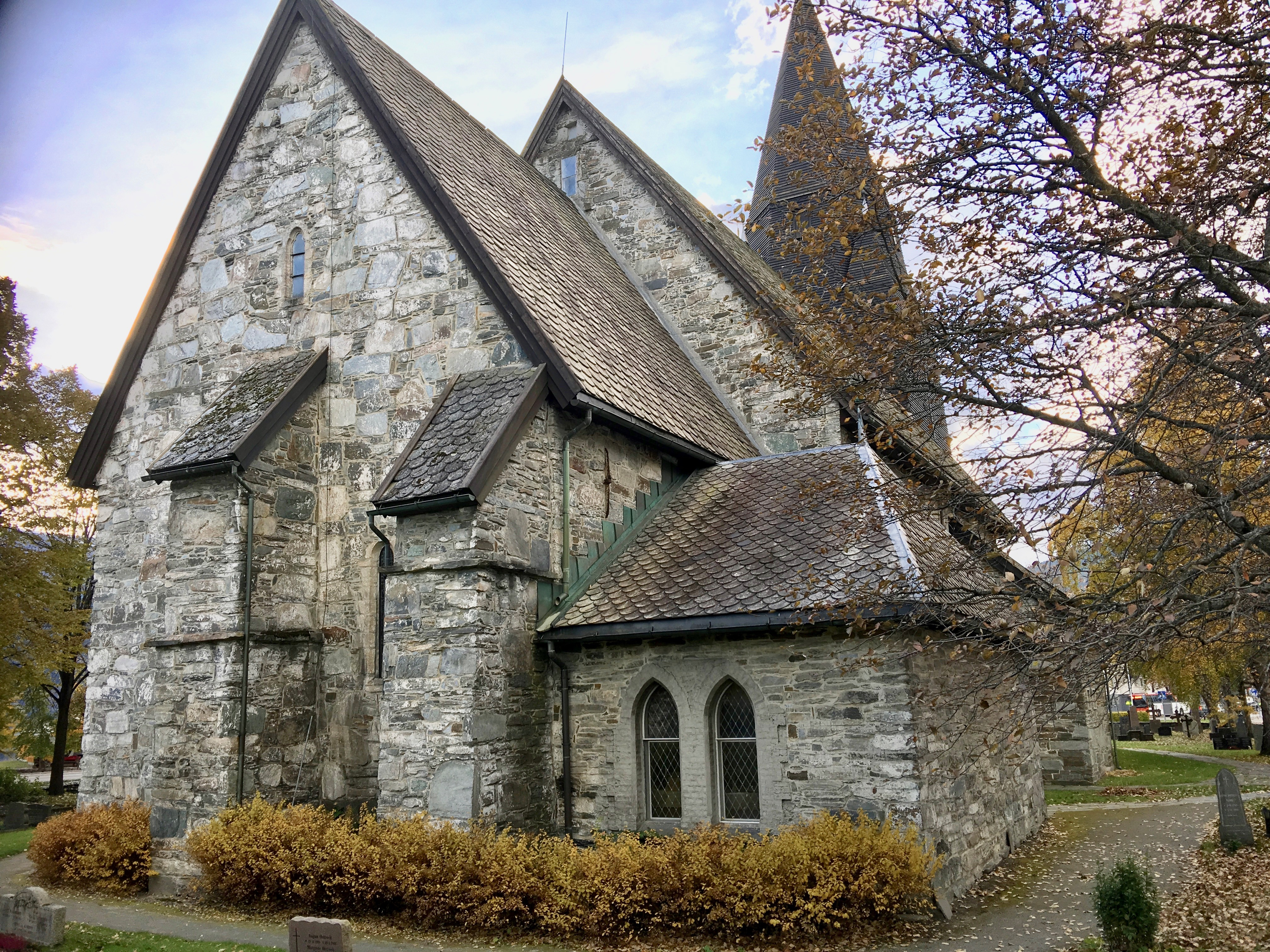 Back/eastern wall of Voss Church (in Norwegian: Voss kirke/kyrkje, Vangskyrkja, a 13th-c stone church) in Voss, Norway. Photo October 25th, 2016.